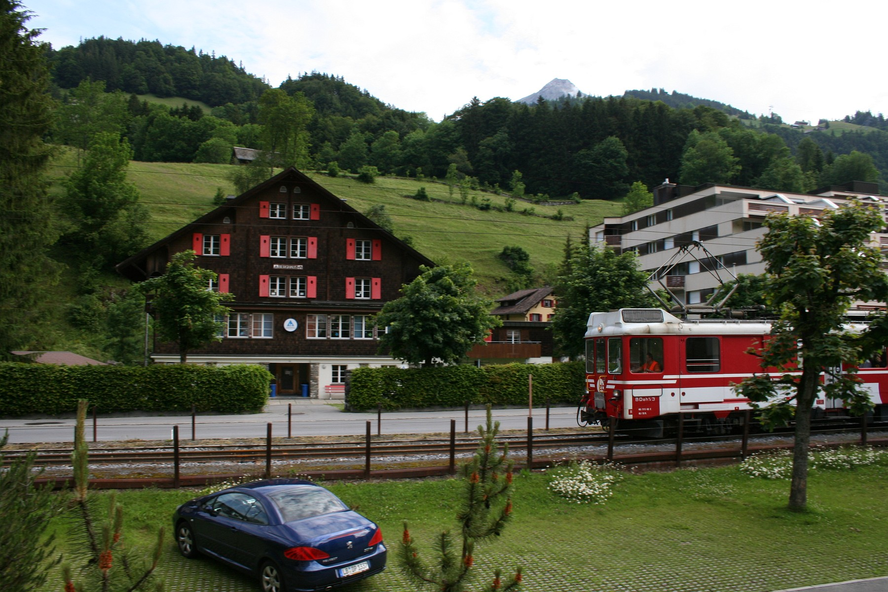 Train of Luzern-Stans-Engelberg-Bahn in Engelberg (Switzerland)